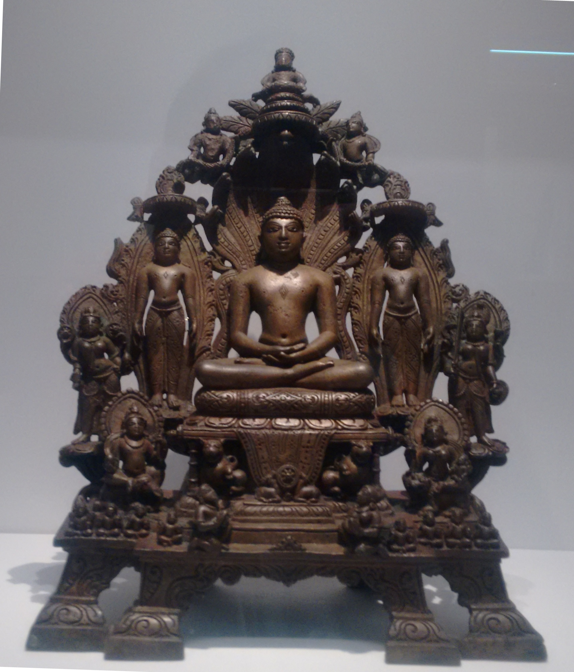 Parsvanatha with two other tirthankaras, yaksha and yakshi, Maitraka, 9th Century, Akota, Gujarat, National Museum, New Delhi